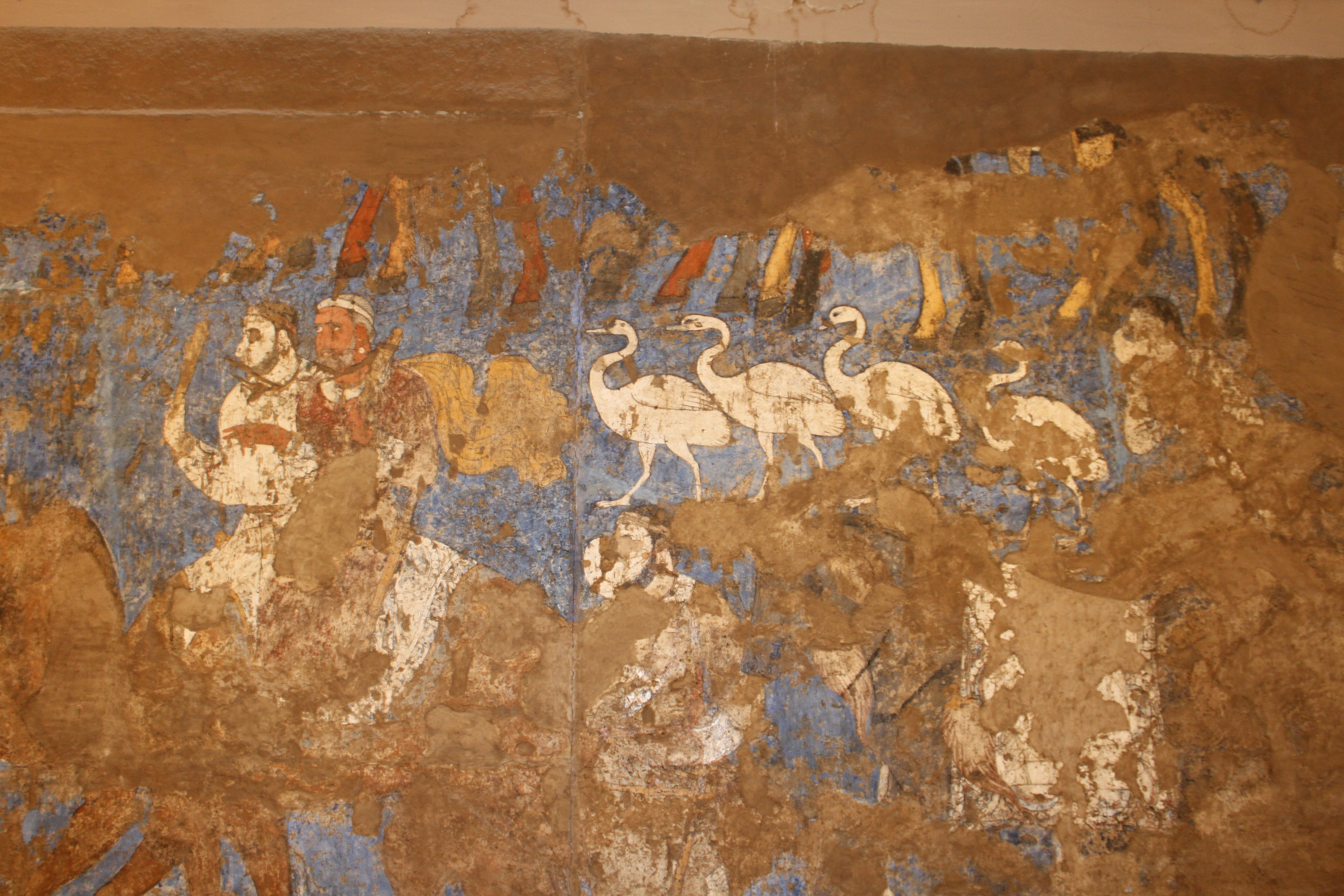 The Ambassordors' Painting, found in the hall of the ruin of an aristocratic house in Afrasiab, commissioned by the king of Samarkand, Varkhuman Description from :"The wall painting shows four geese and, more remarkably, an un-mounted horse, accompanied by men wearing the padām, the traditional face mask of Mazdean priests, and two men with sacrificial maces, sitting atop a camel. This scene could be interpreted as a parade of priests and sacrificial animals, which is, moreover, followed by a larger horse with a large rider."